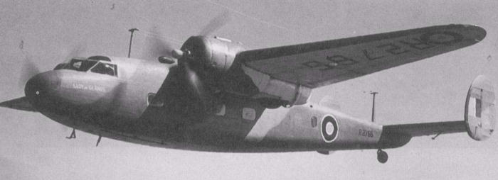 De havilland DH95 Flamingo